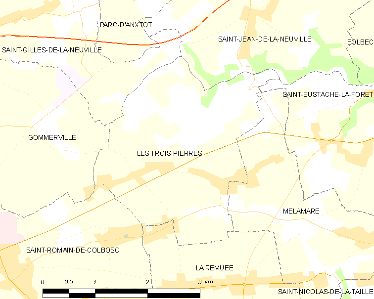 Map of French municipality Les Trois-Pierres